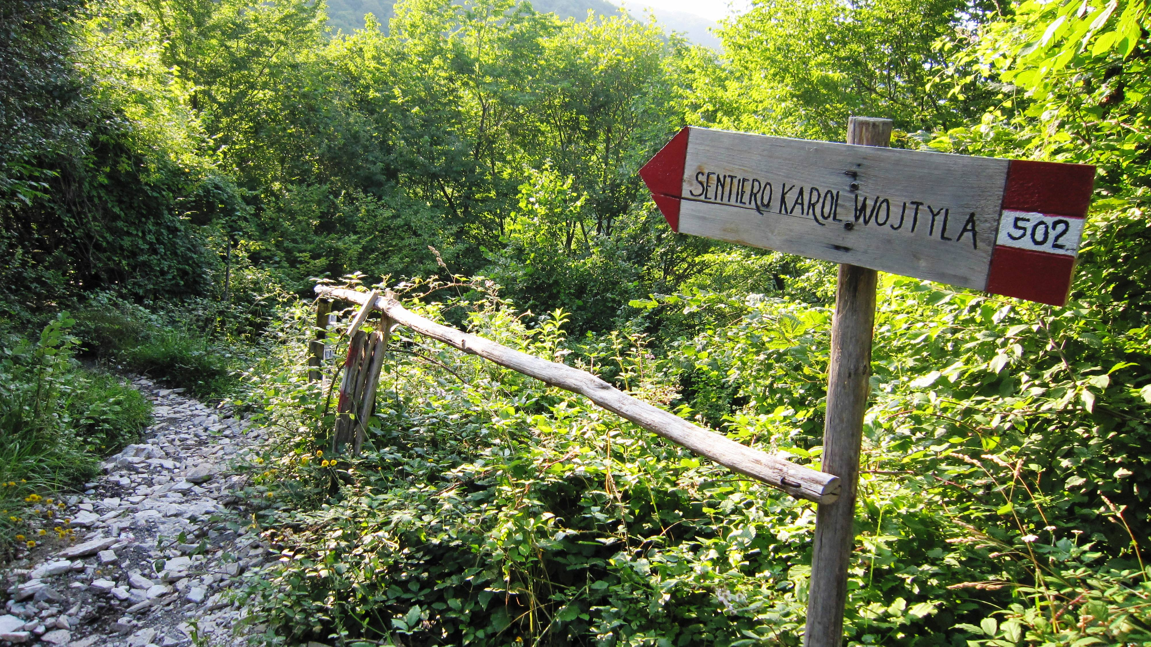 MENTORELLA INDICAZIONE